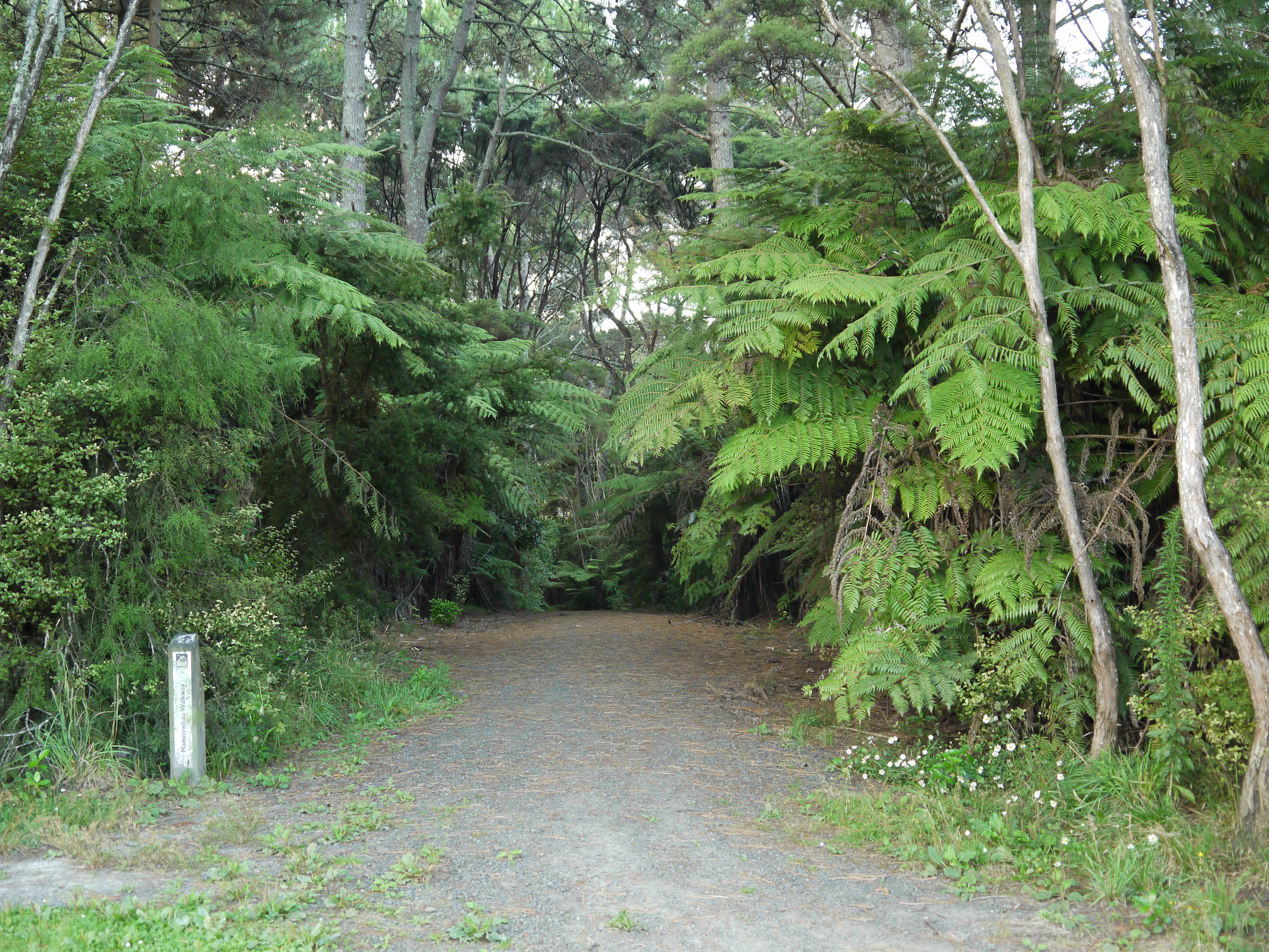 Entrance to Manutewhau Walkway in Moire Park, Royal Heights, Auckland